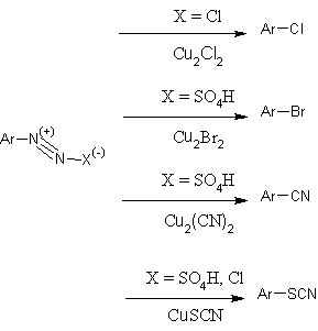 Sandmeyer reaction of diazonium salts